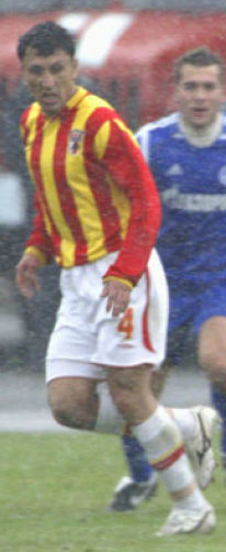 Rahmatullo Fuzailov in action for FC Alania